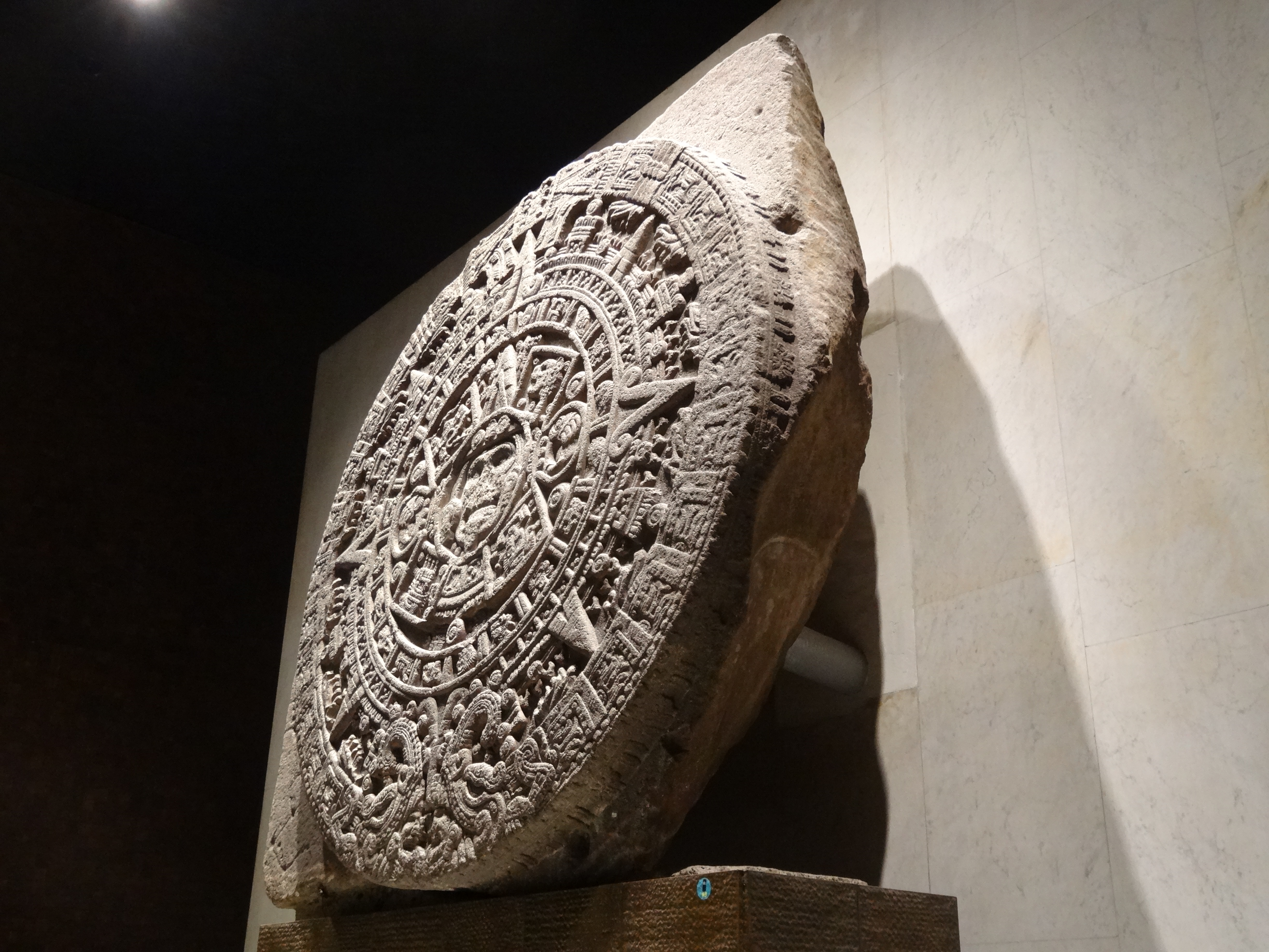 Aztec sun stone in National Anthropology Museum - Mexico